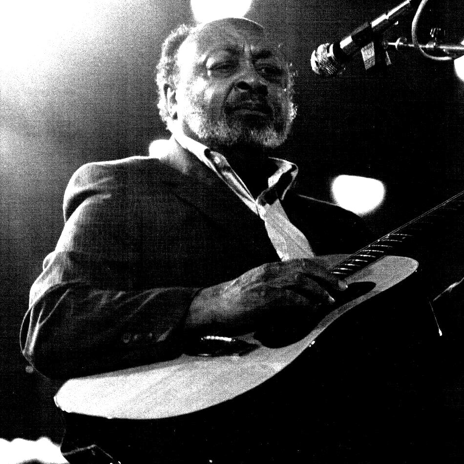 Guitarist Robert Lockwood Jr on stage in France.